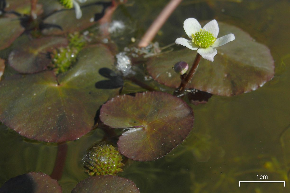 Caltha natans, Peace River, BC, Canada